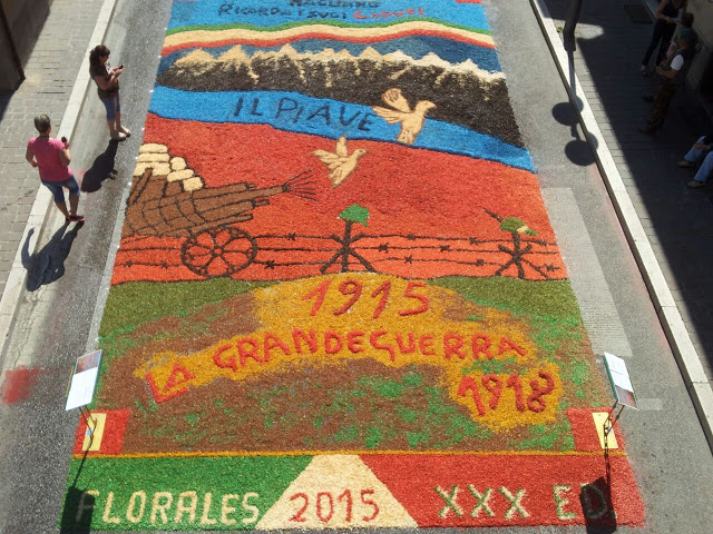 Infiorata (Corpus Christi), Magliano dei Marsi, Abruzzo, Italy